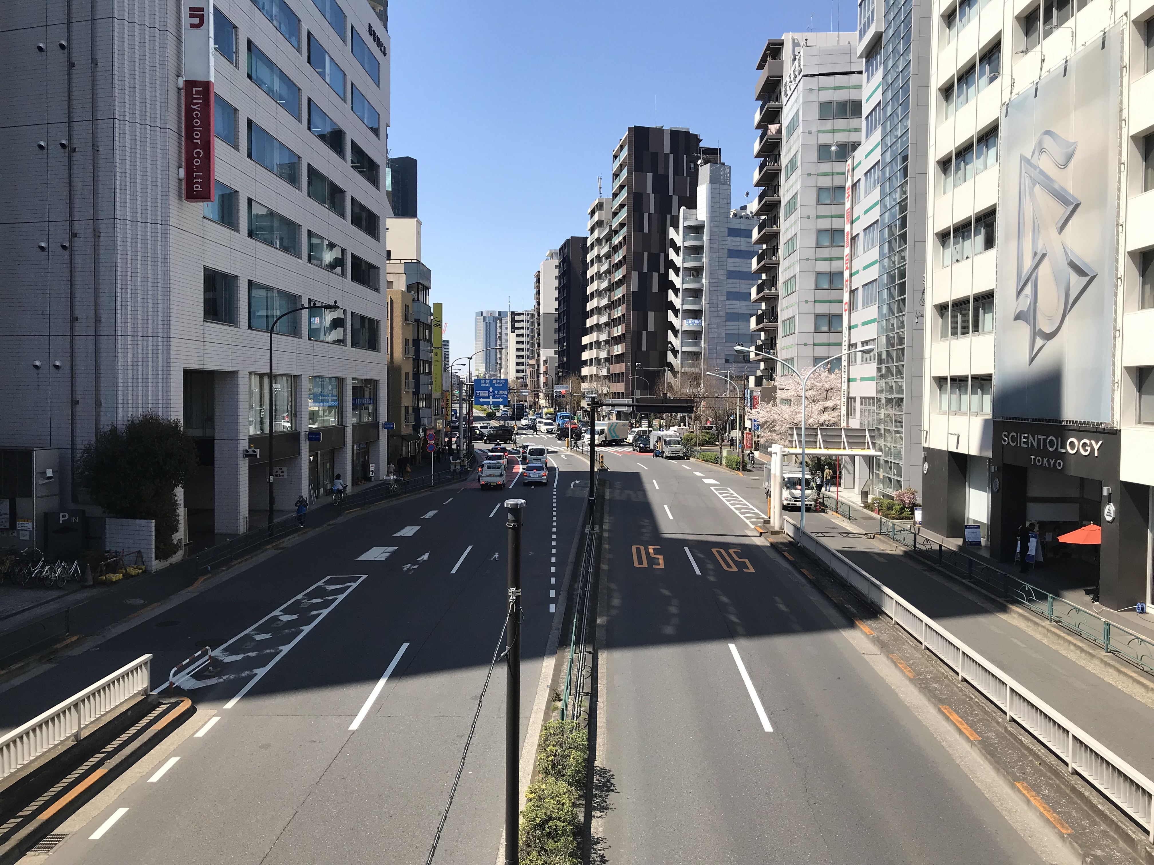 Tokyo Metropolitan Road Route 302 in Nishi Shinjuku